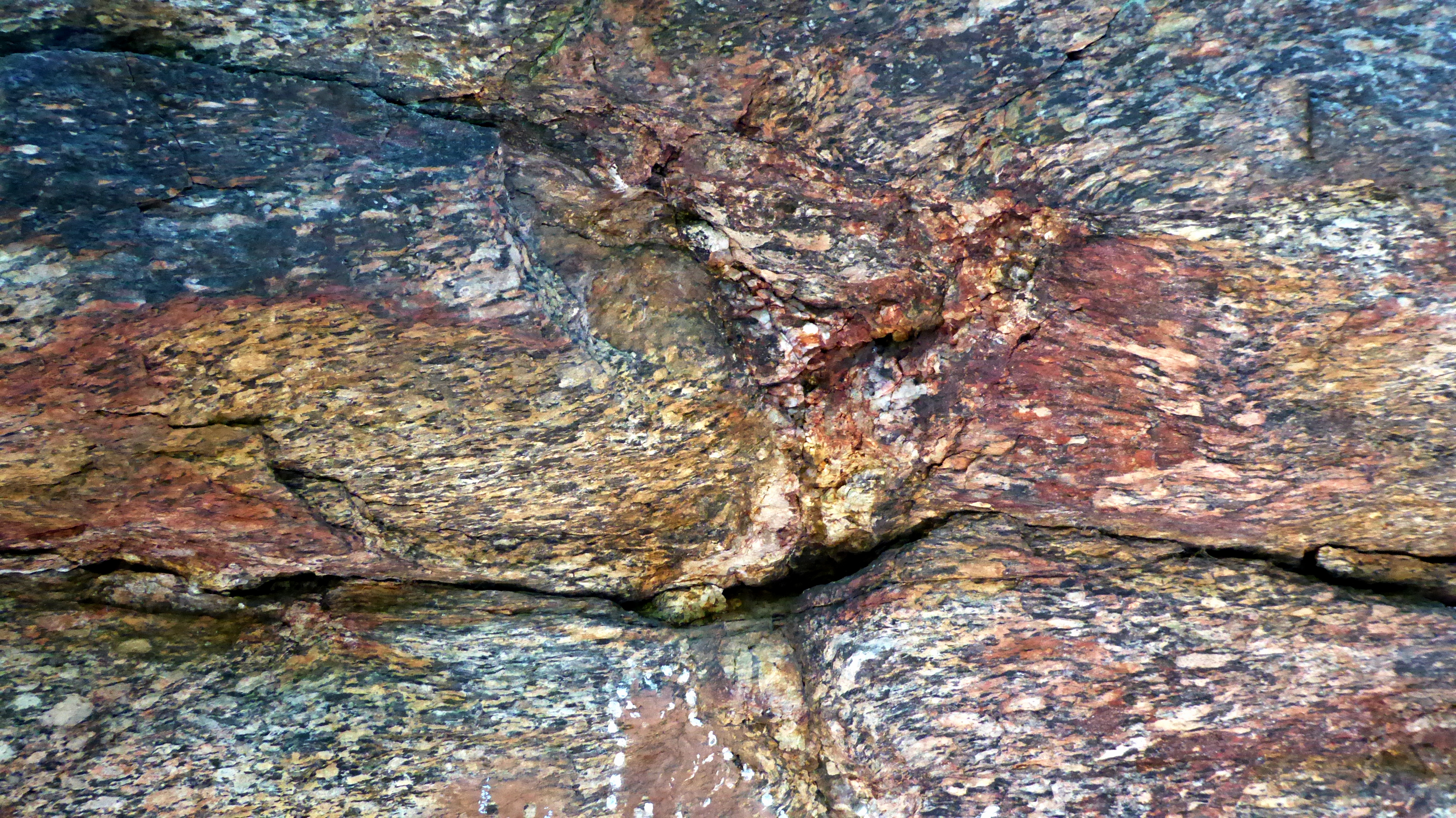 Rock group called Petrified Chateau, natural monument of Žďár Hills. The structure of the rock massif in some places of natural monument. Photo-location: Czechia, Vysočina Region, the town of Svratka, a group of rocks called Petrified Chateau (azimuth 70°).